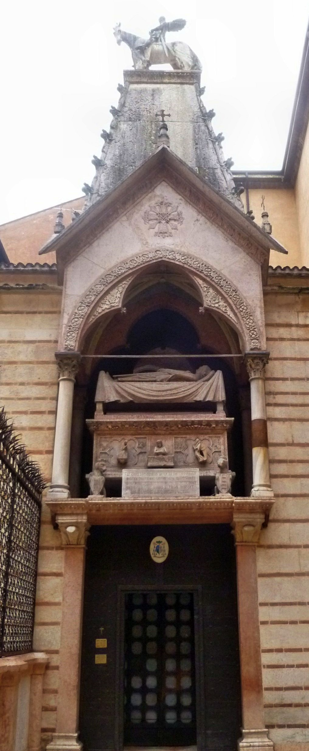 Tomb of Cangrande I; the Scaliger Tombs, a group of five Gothic funerary monuments in Verona, Italy